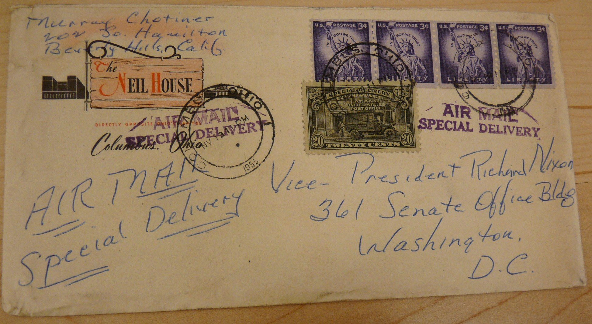 Envelope addressed by Murray Chotiner to Vice President Richard Nixon